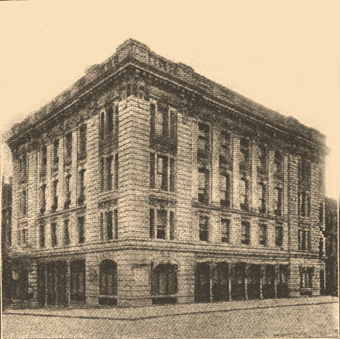 Illustration from Brockhaus and Efron Jewish Encyclopedia (1906—1913). The Russian caption says "Progressive Club" (presumably meaning "Progress Club", the leading New York Jewish club of the era), but this is the Young Men's Hebrew Association at 92nd Street and Lexington Avenue, New York, which developed into today's 92nd Street Y. This building was built in 1900, but no longer stands. (You can see an image of this building under construction on the 92nd Street Y's site at It's linked from their timeline from the year 1900.